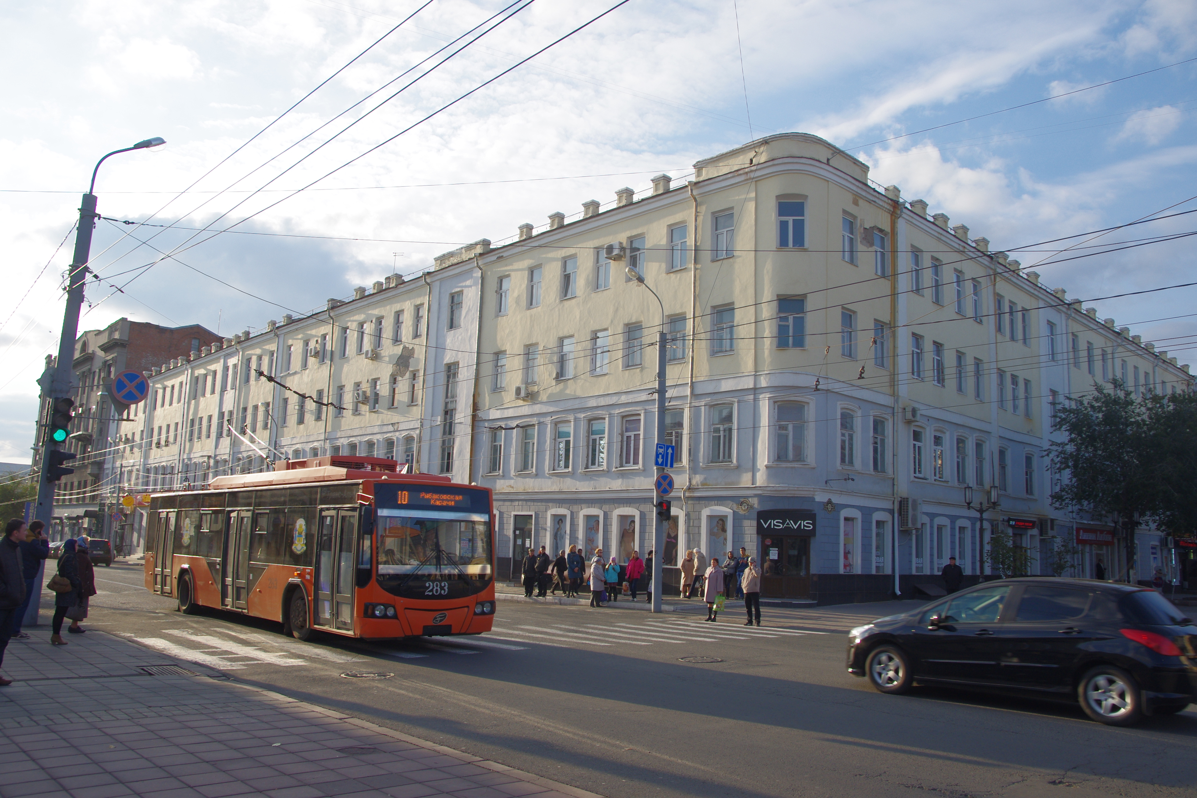 VMZ trolleybus in Orenburg centre